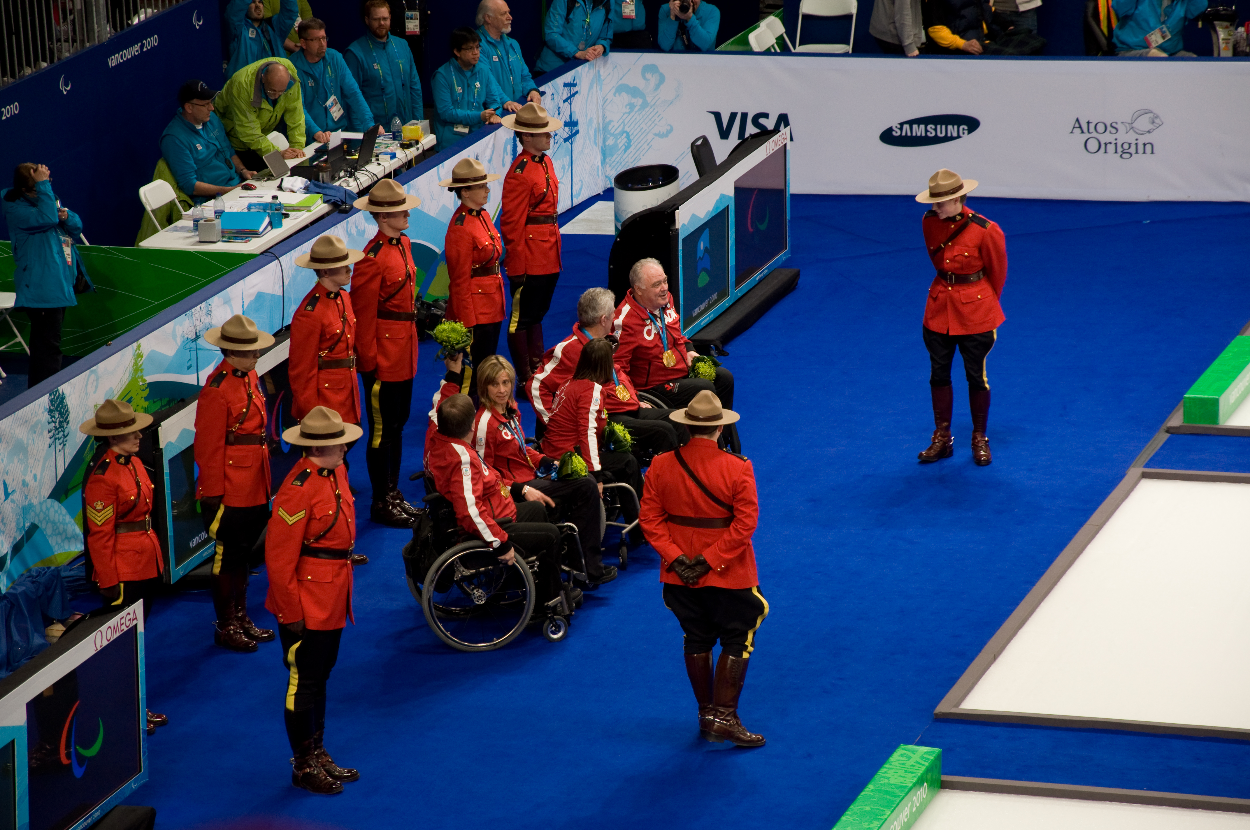 Canada is the winner of the wheelchair curling tournament at the 2010 Winter Paralympics in Vancouver, Canada.